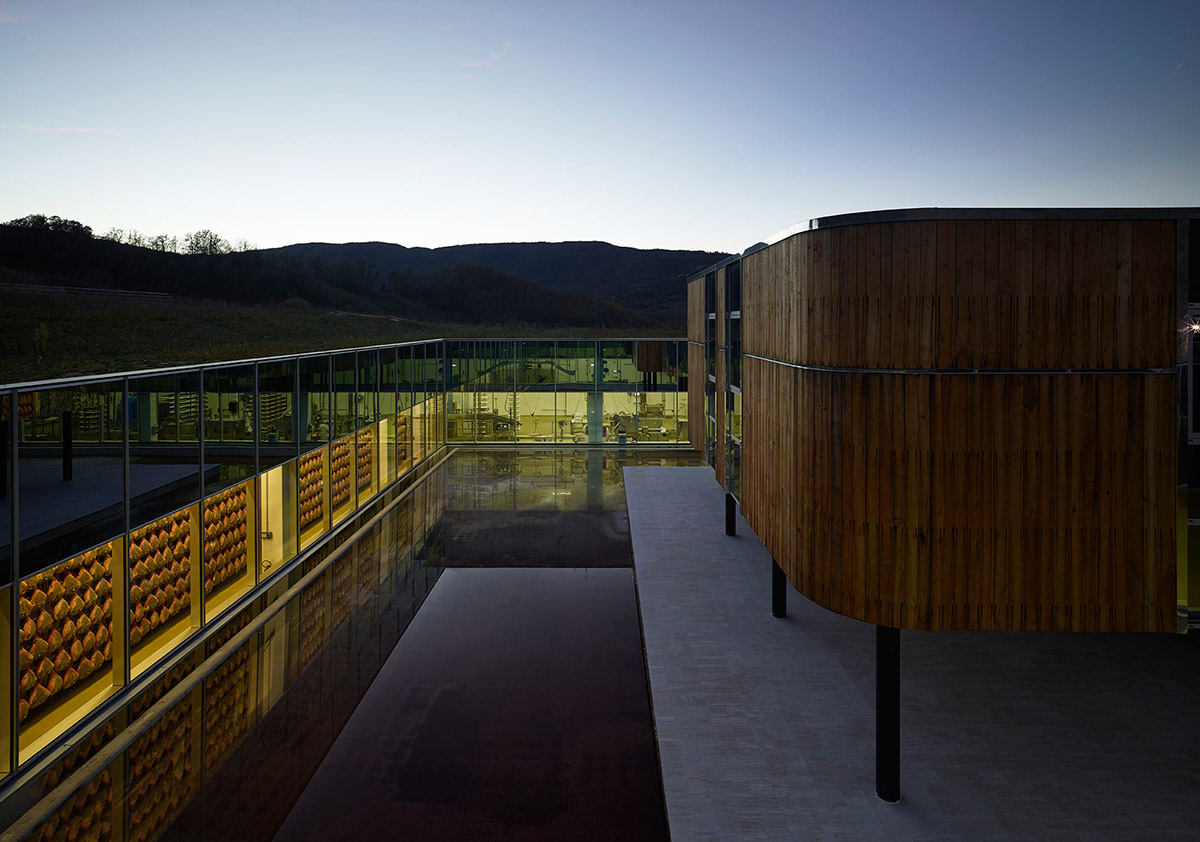 Industrial Factory Salpi Uno